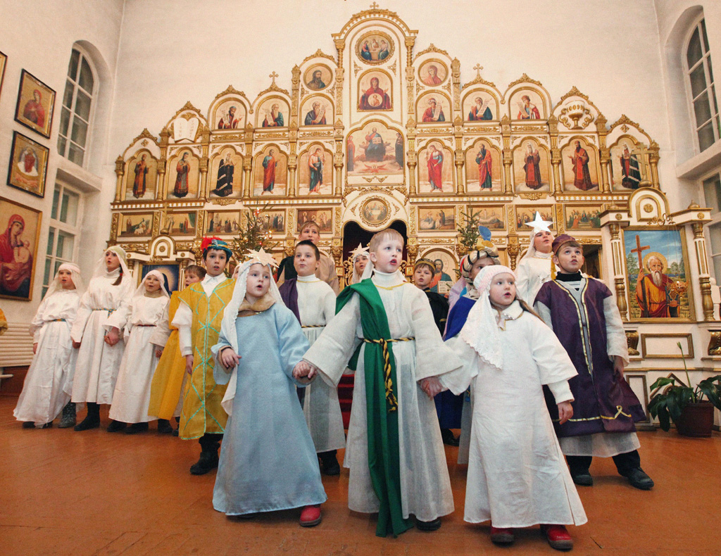 "All-night vigil on Christmas Eve at St.Andrews Church in the town of Fokino". Students of a Sunday school performing a story of Christ's birth after an all-night vigil on Christmas Eve at St.Andrews Church in the town of Fokino, Primorye Territory.